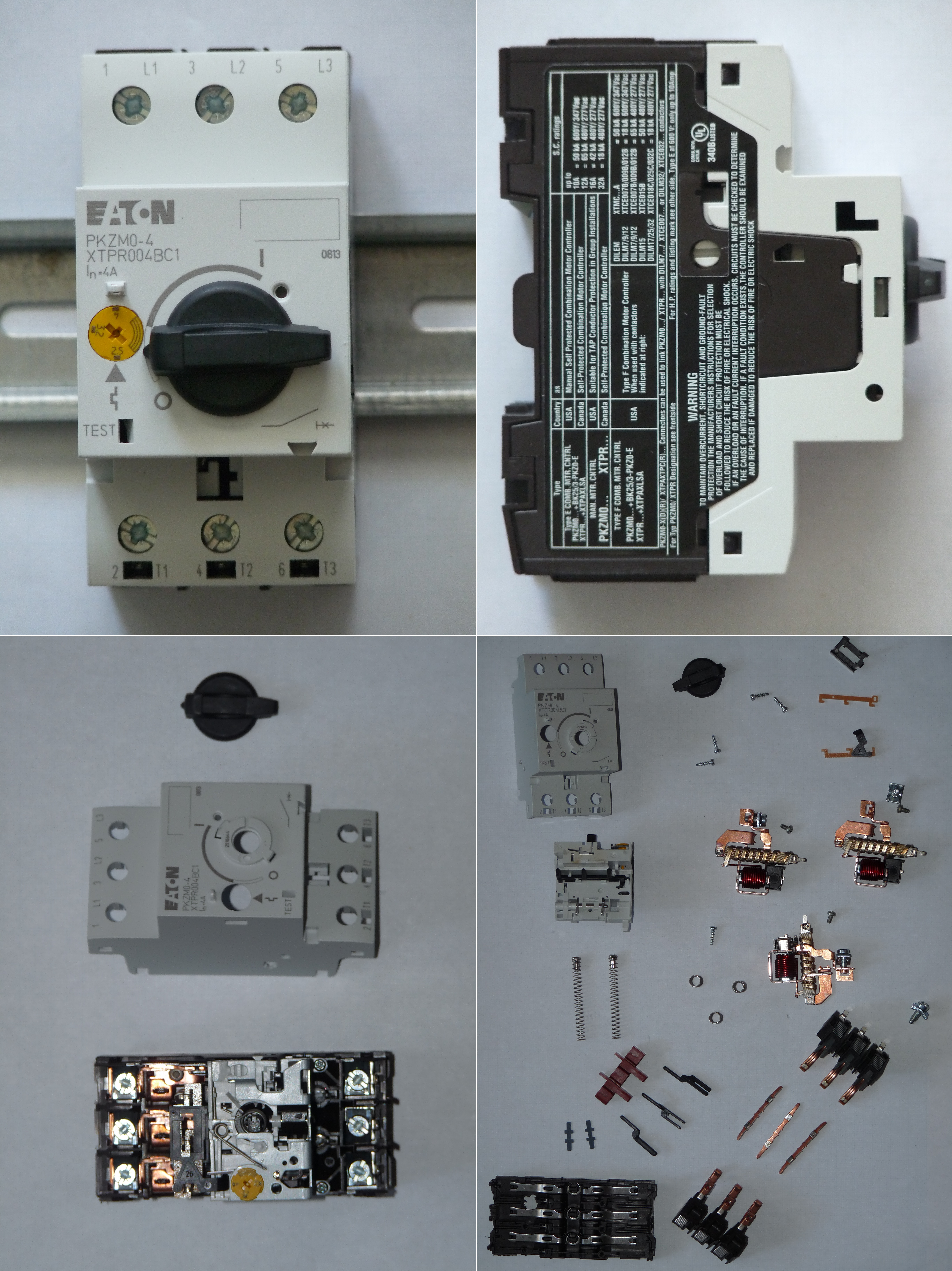 combi circuit breaker: 1) overcurrent protection 2) short-circuit protection 3) motor protection against overheating